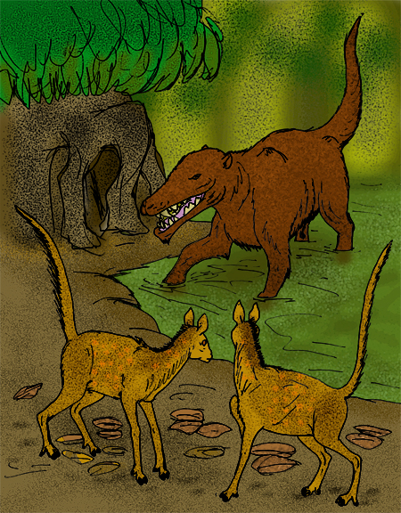 A pair of basal artiodactyls, Diacodexis pakistanensis are confronted by a Pakicetus inachus in a Pakistani swamp during the early Eocene. (C) Stanton F. Fink